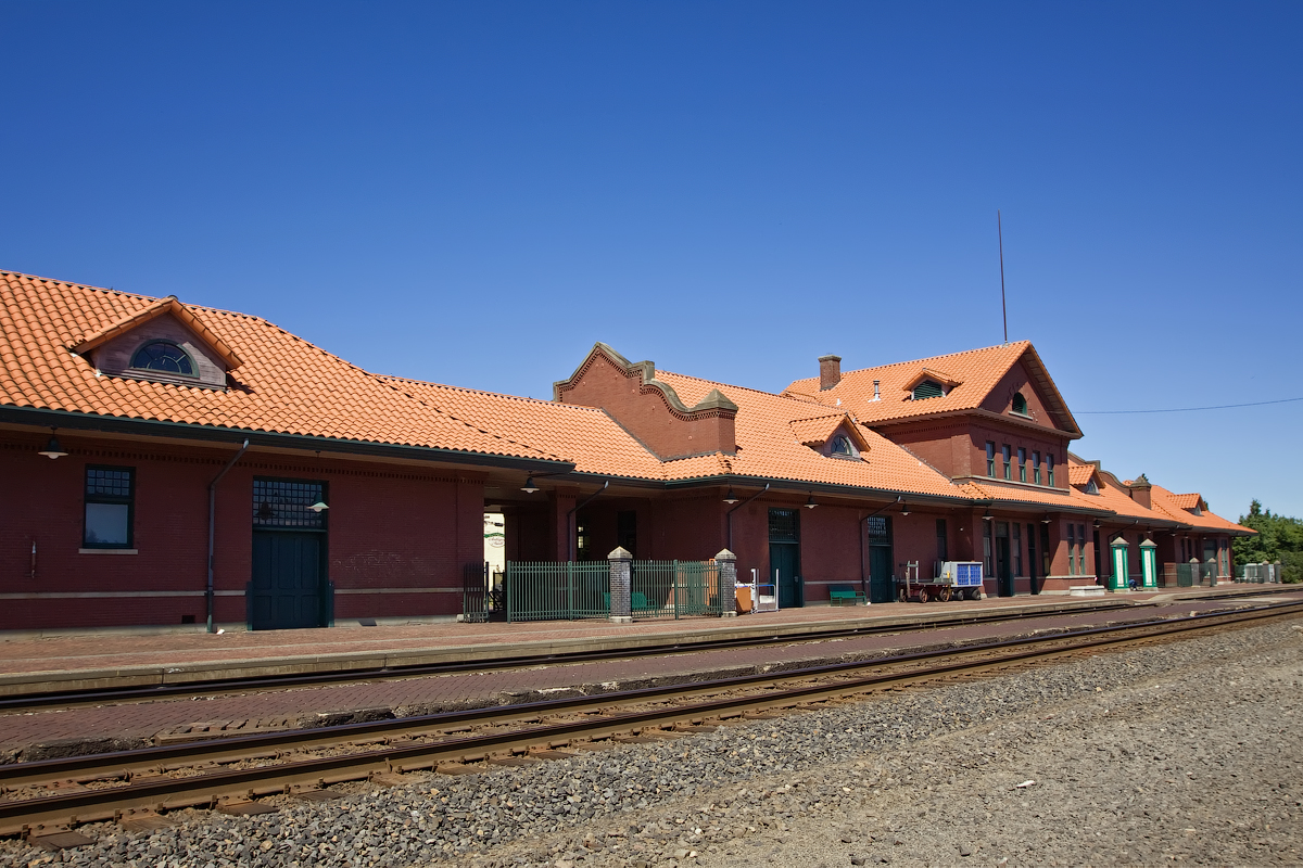 Centralia Union Depot — Centralia, Washington, U.S. Street address: 210 Railroad Street Centralia, WA USA 98531